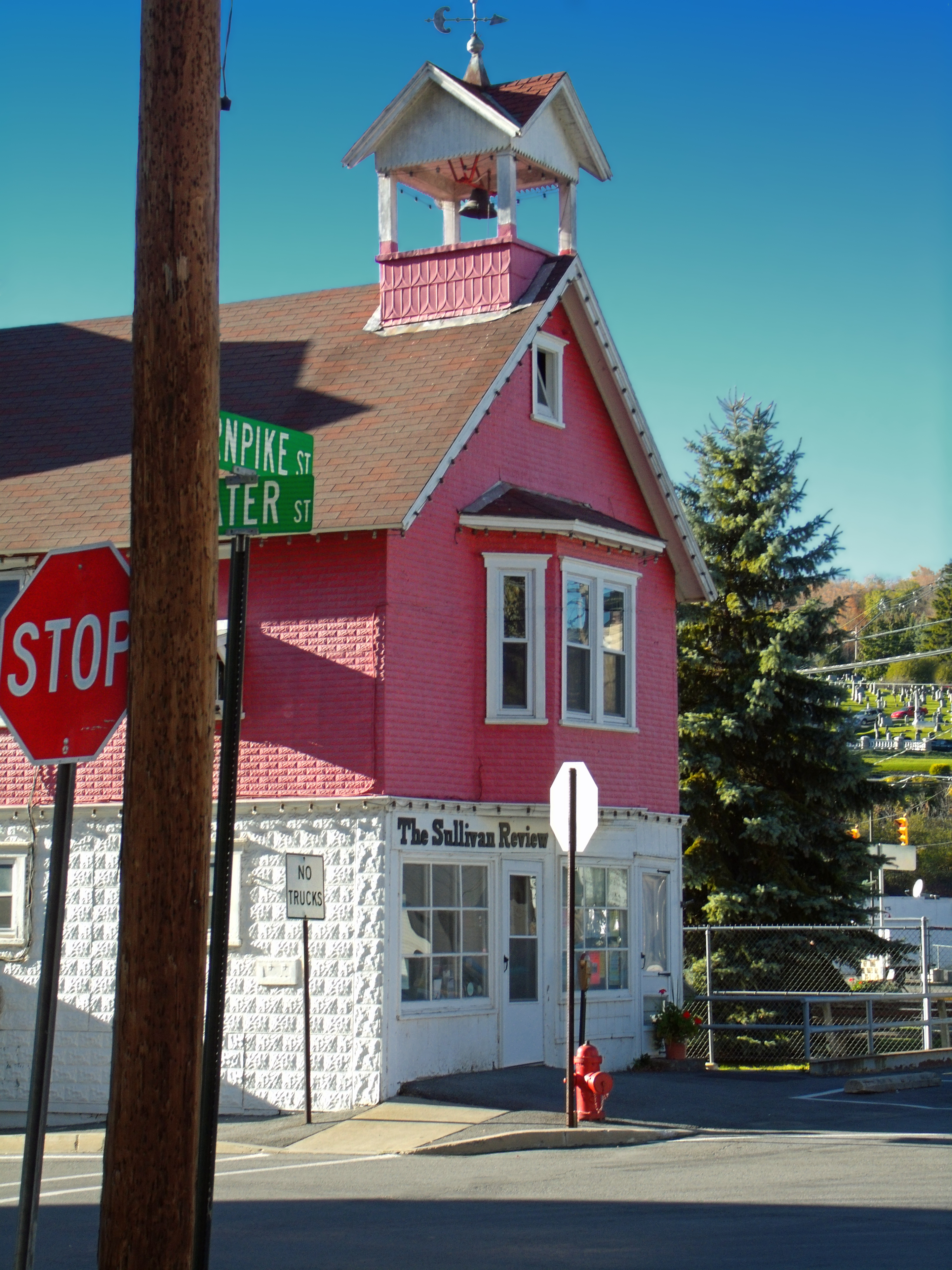 Borough of Dushore, Sullivan County. The town reportedly has the only traffic lights in Sullivan County. Not surprising; the county is rural and sparsely populated, with large tracts of wilderness.